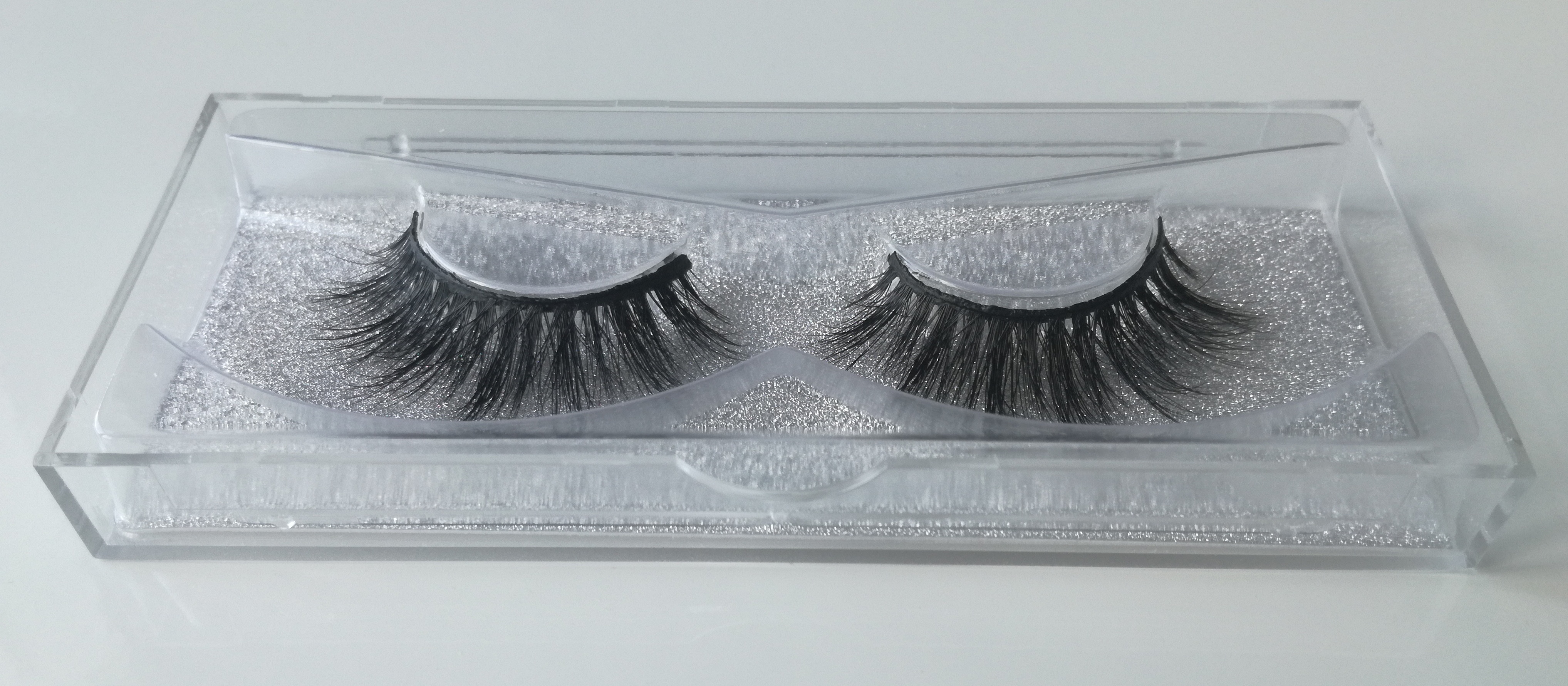 This is the style Christina from Ariana Lashes. They are 3d mink lashes, which are high quality lashes.